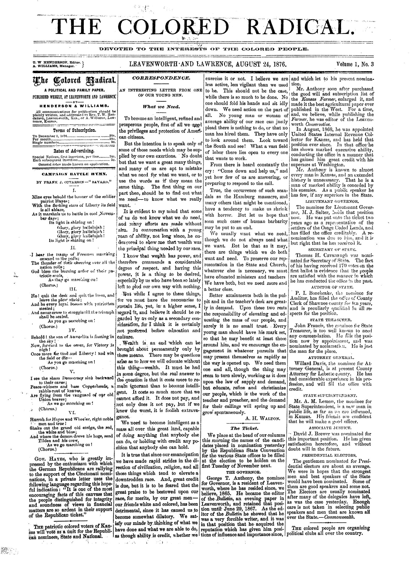 Front page of inaugural issue of The Colored Radical, the first known African American newspaper in Kansas, dated August 24, 1876. Published weekly at Lawrence and Leavenworth, the paper shut down after the election of 1876.